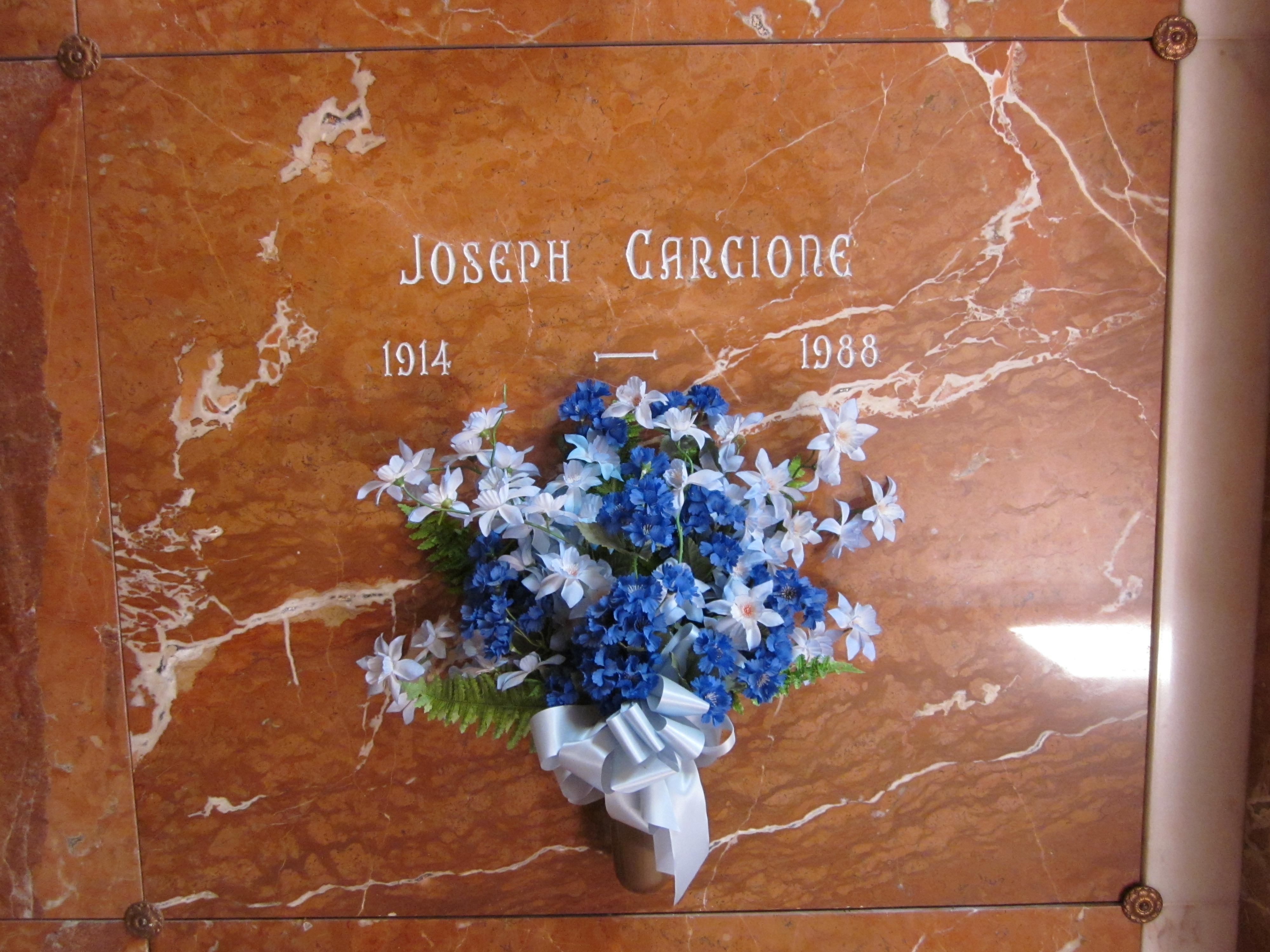 The vault of of Joseph W. Carcione, AKA "The Green Grocer," at the All Saints' Mausoleum in Holy Cross Cemetery, Colma, California.